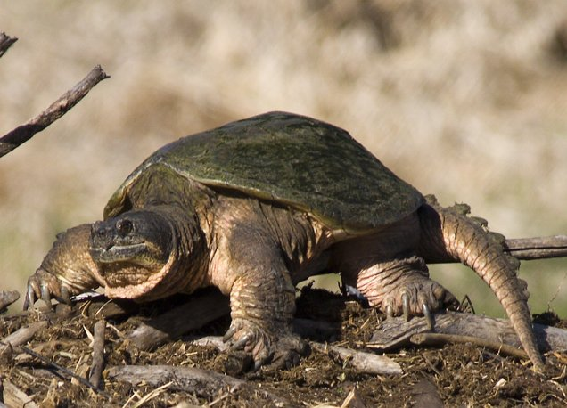 Common Snapping Turtle sitting on top of a beaver house. Lake Maria State Park near Maple Lake, MN.